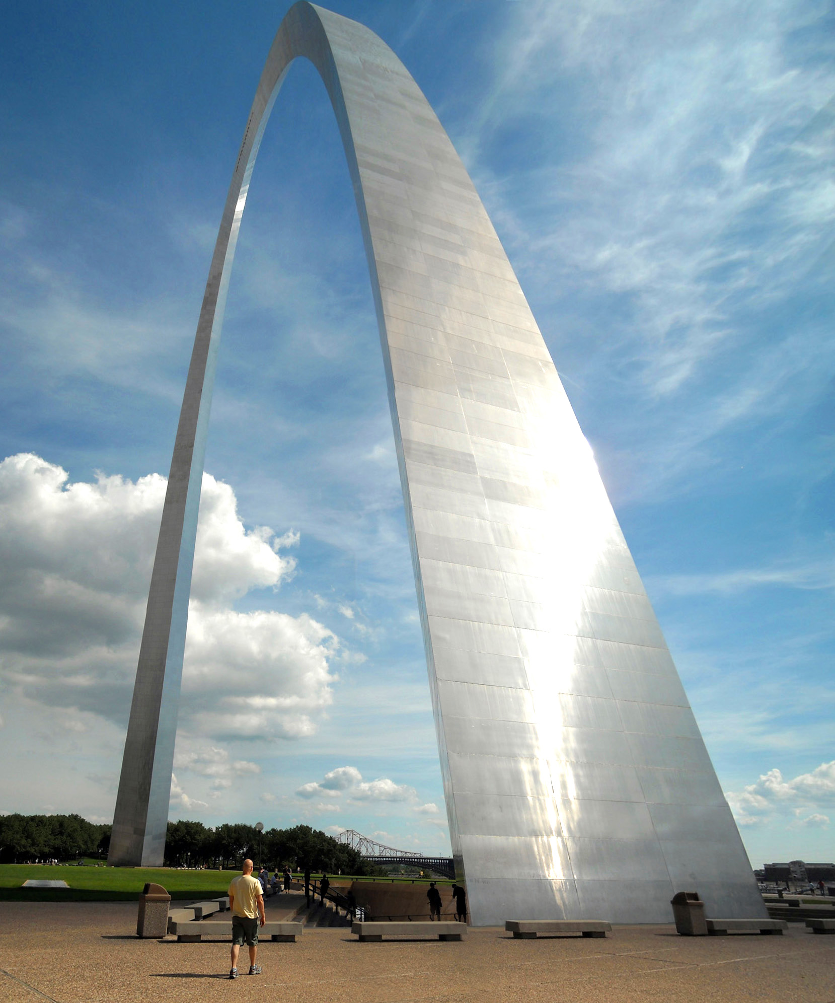 A very wide shot of the St. Louis Arch